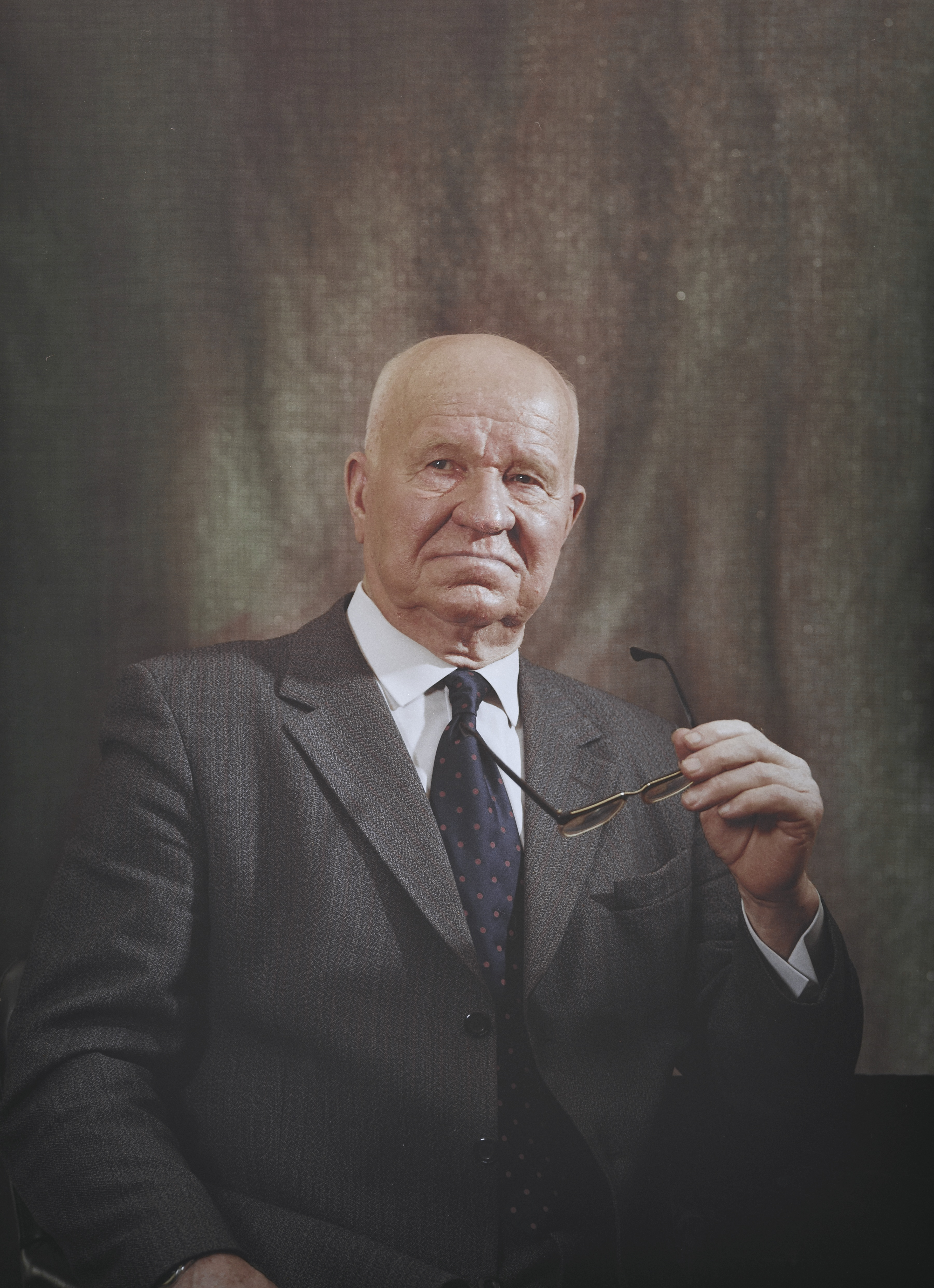 Photograph of the Finnish politician Väinö Tattari (1902–1981).